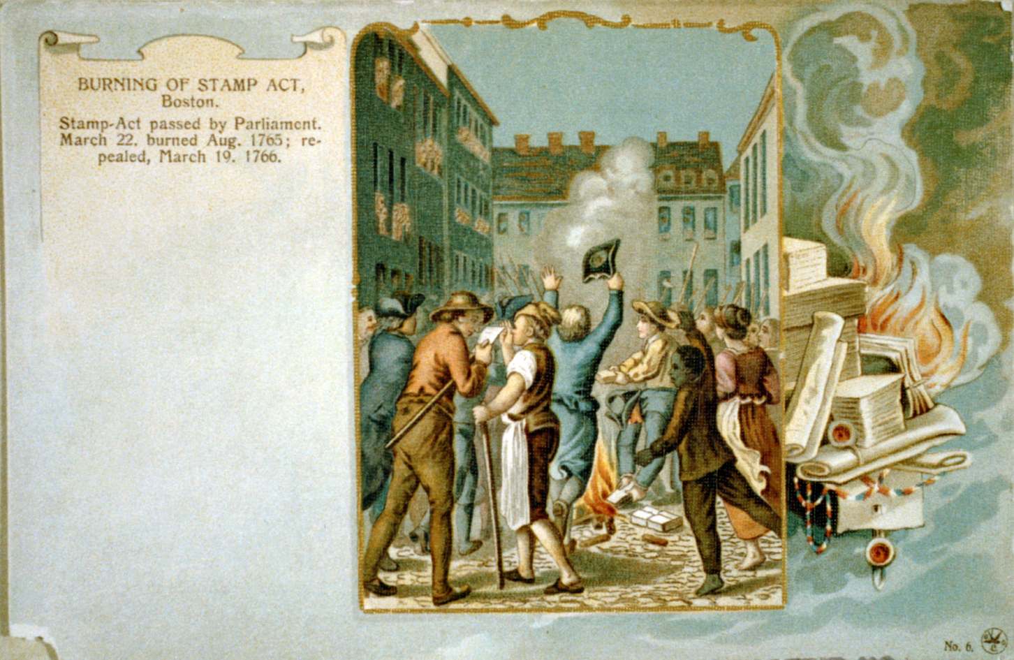 Burning of Stamp Act, Boston. 1 photomechanical print (postcard) : color.